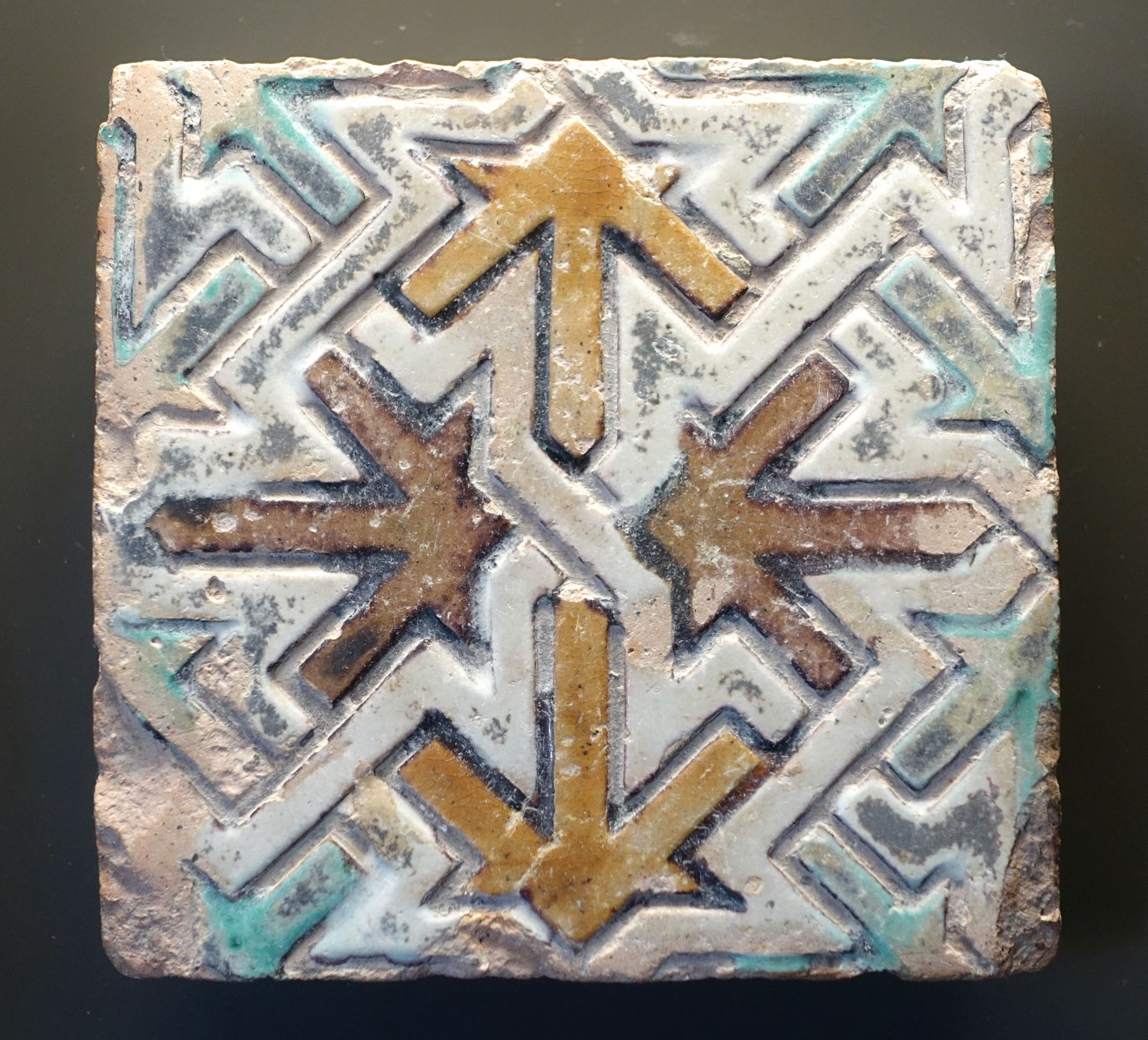 Ceramic tile in the Alcázar of Seville, Spain.